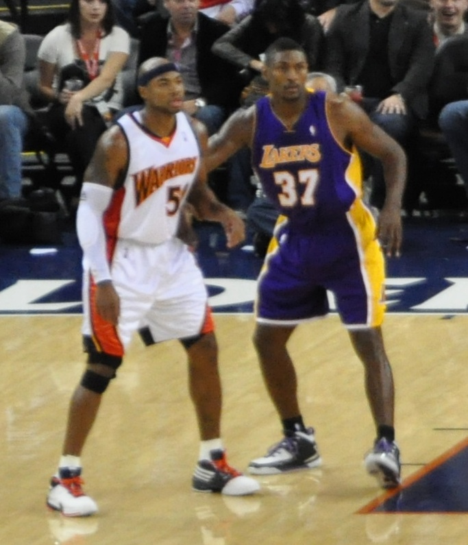 Corey Maggette and Ron Artest, November 2009